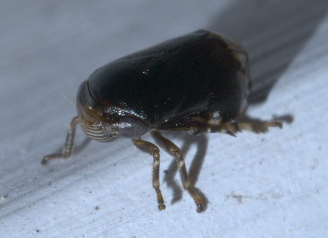 Clastoptera xanthocephala, Sunflower Spittlebug, ID Confidence: 88